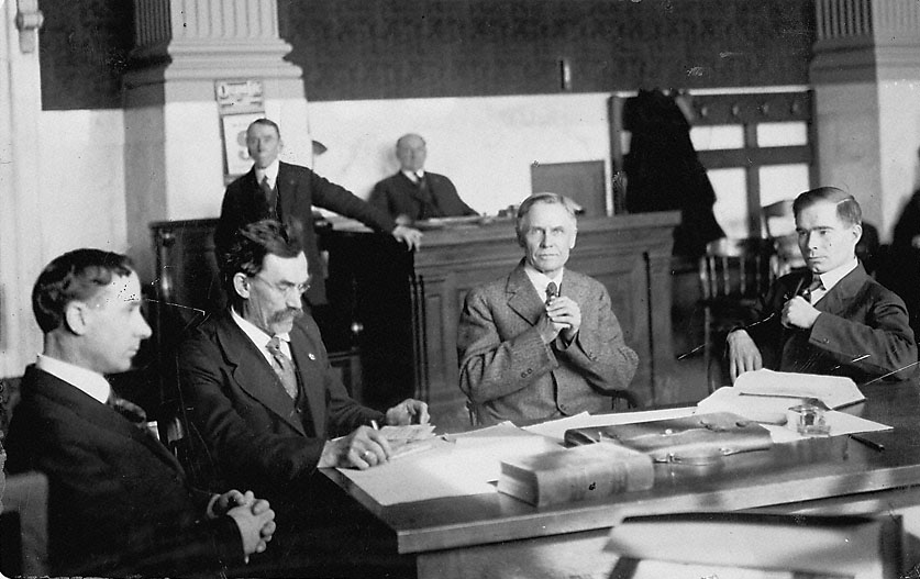 Photograph of criminal syndicalism trial of Communist Labor Party members in Portland, Oregon. In foreground from left: Claud Hurst (defendant), Fred W. Fry (defendant), William Simon U'Ren (defense attorney), and Karl W. Oster (defendant). In back: Circuit Court Judge Robert G. Morrow and clerk Charles Lockwood.